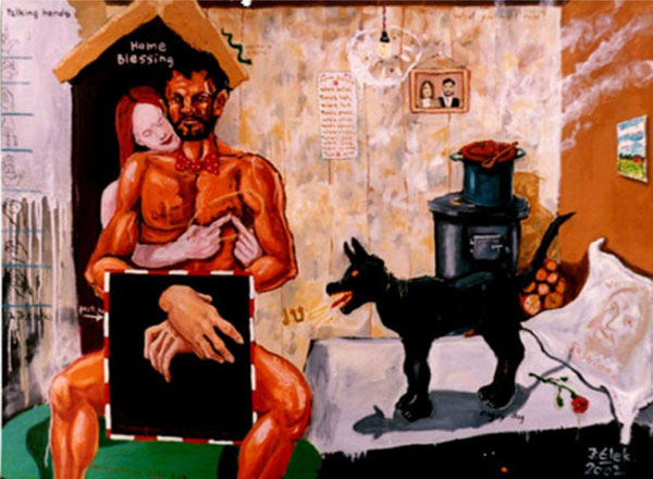 Jakab Elek - Talking Hands: Hommage a Leonardo Title: UNCONCERN oil on canvas, 100x140 cm, 2002